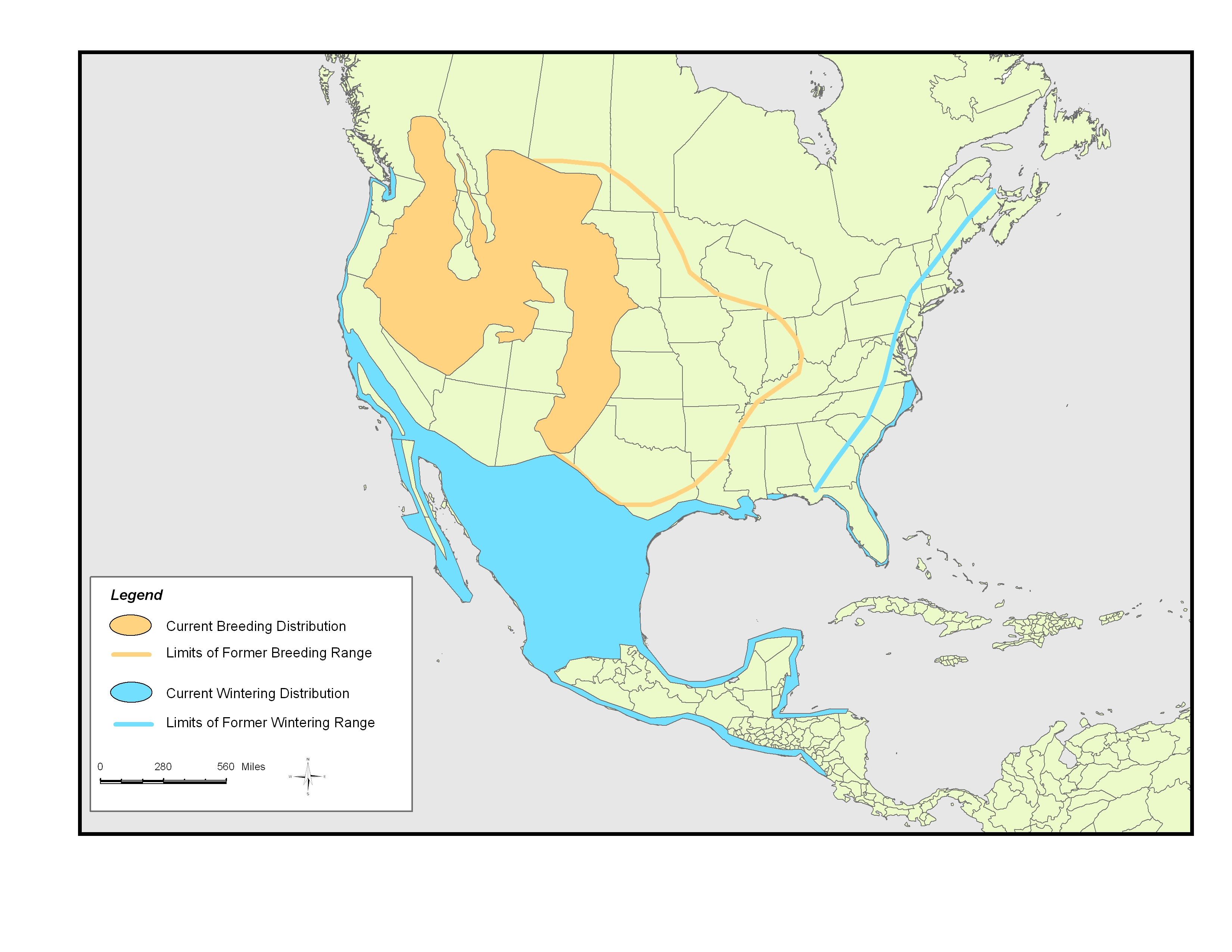 Range map for Long-billed Curlews